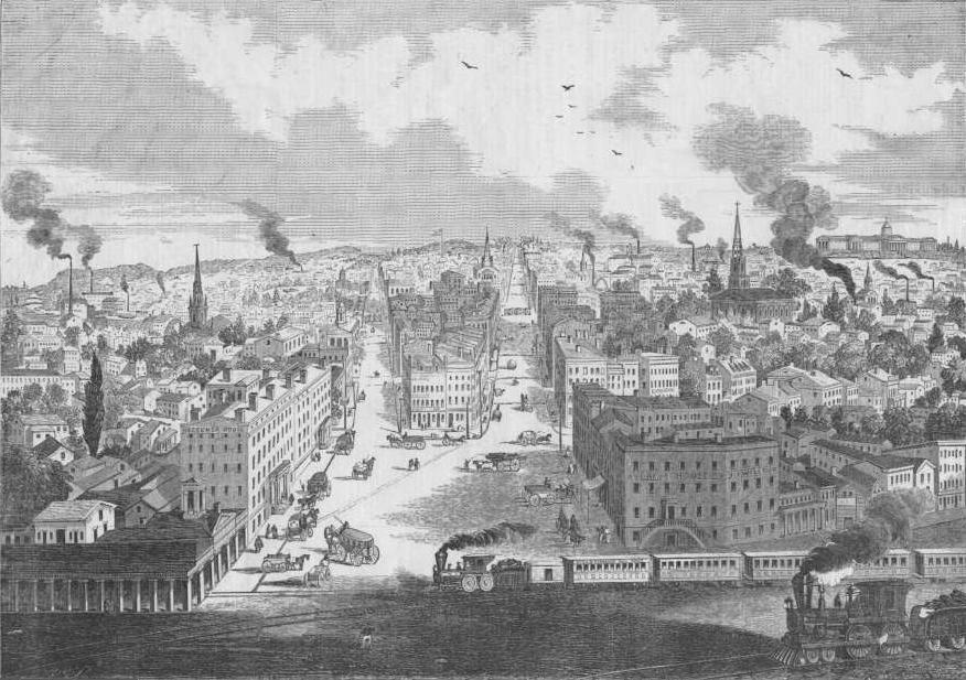 View of the City of Utica, New York, United States.